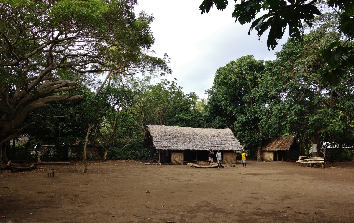 Lowkanhuo - the main nakamal of Lowanatom village.